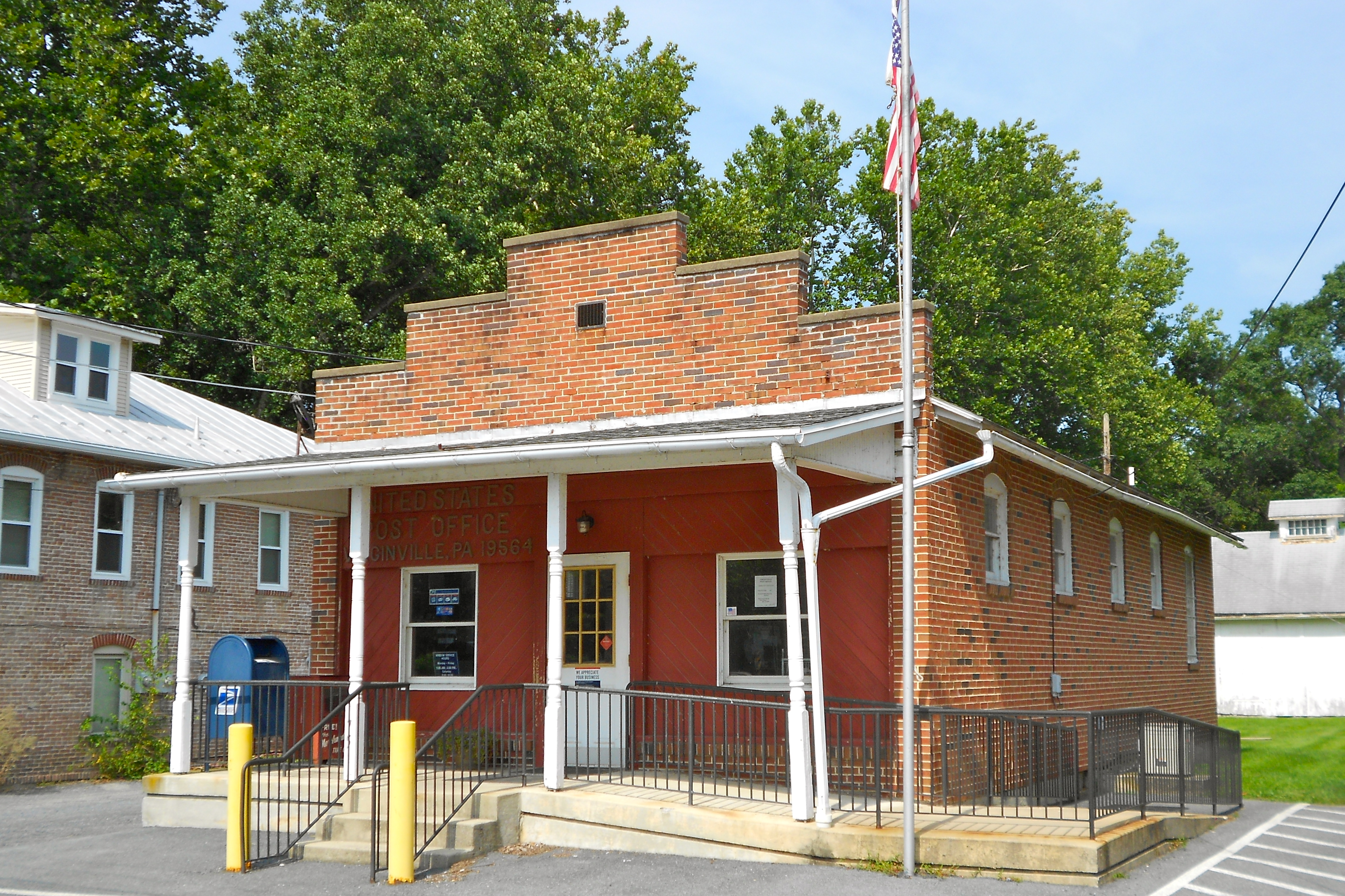 Post Office (zip code 19564) in Virginville Historic District , listed on the NRHP on September 28, 2000 . The historic district included Main, 2nd, 1st, and Front Streets and Chapel Drive in Virginville, Richmond Township, Berks County, Pennsylvania